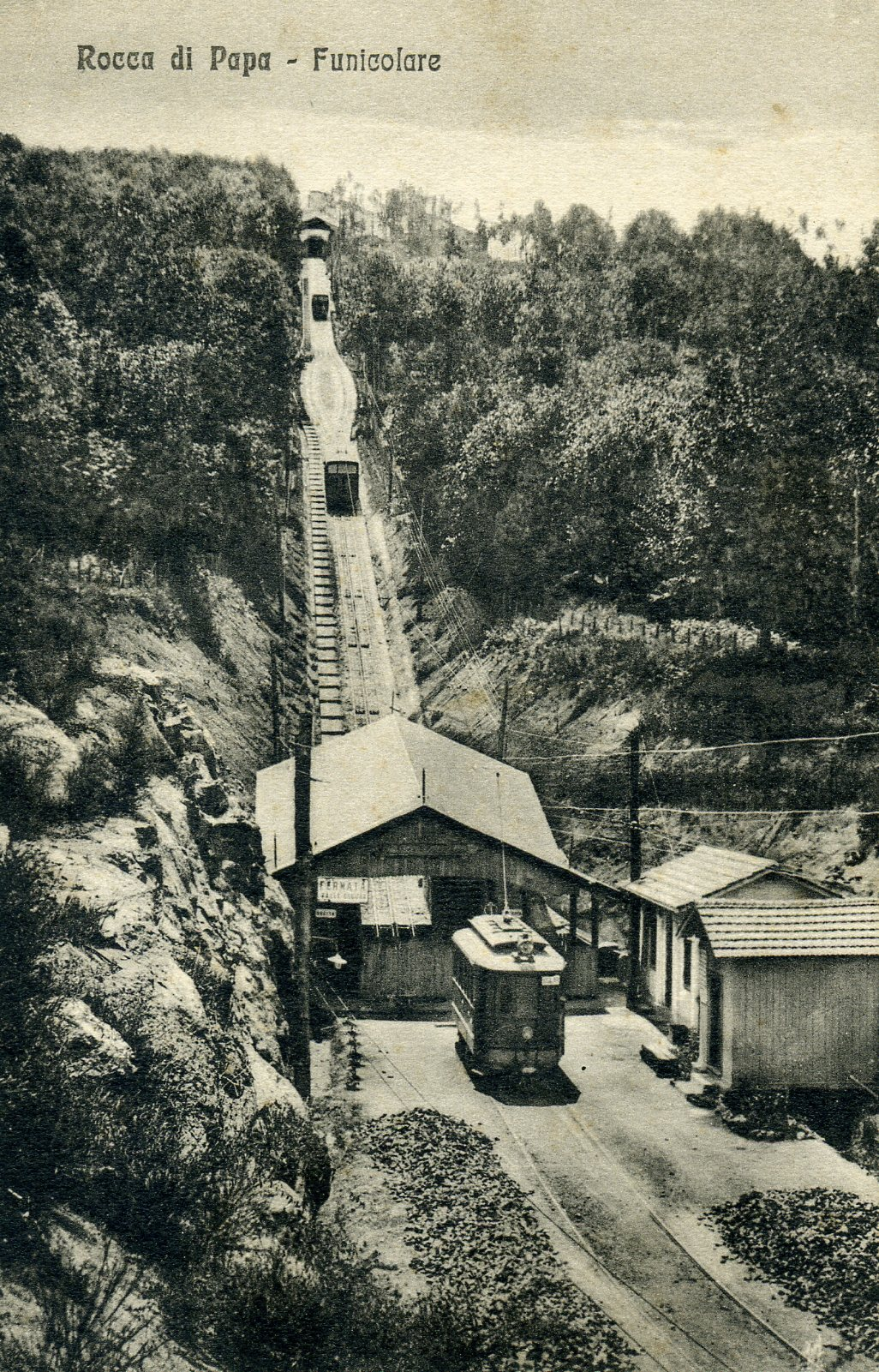 Postcard of funicular at the beginning of '900